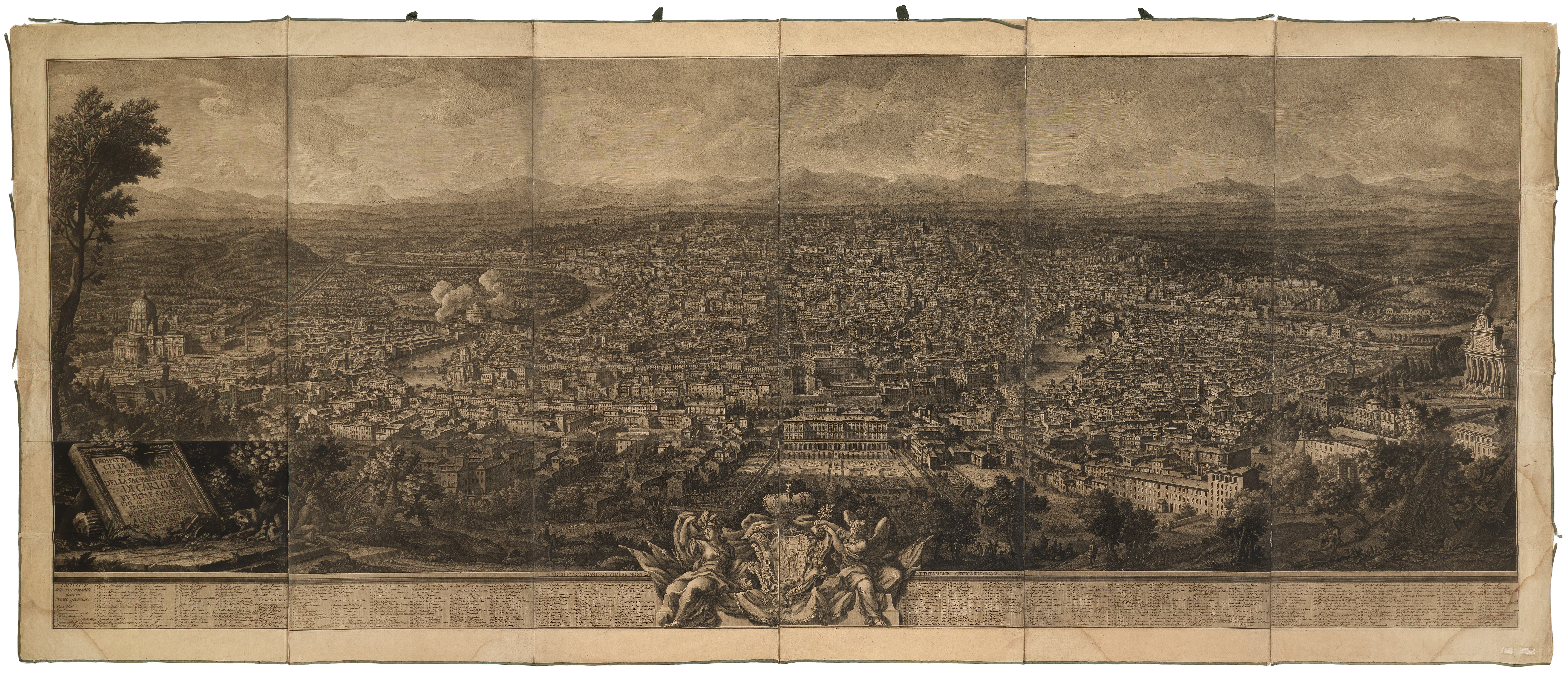 A prospect of the city of Rome from Janiculum.